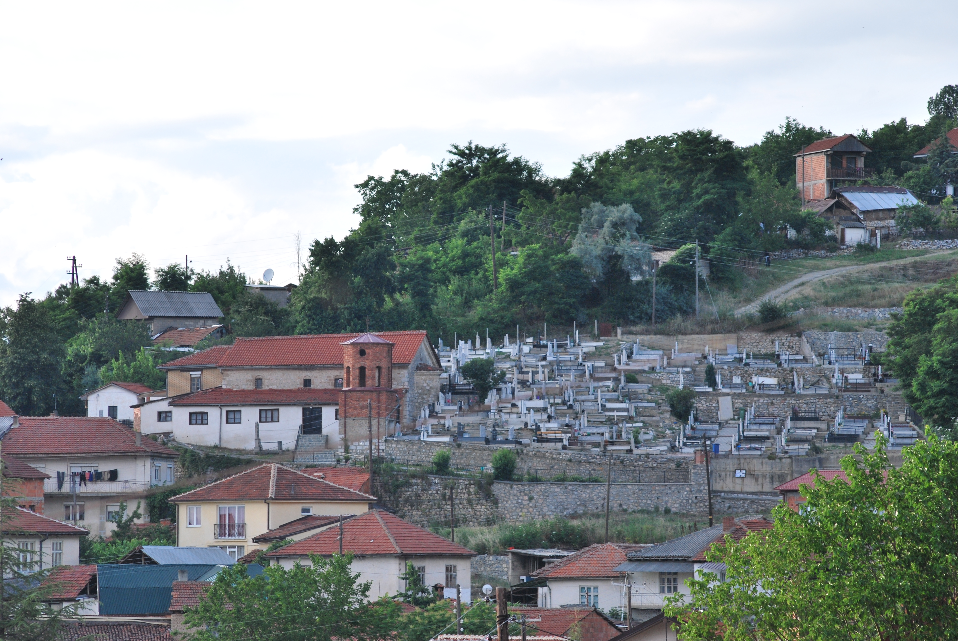 St. Clement Church in Velgošti, Macedonia